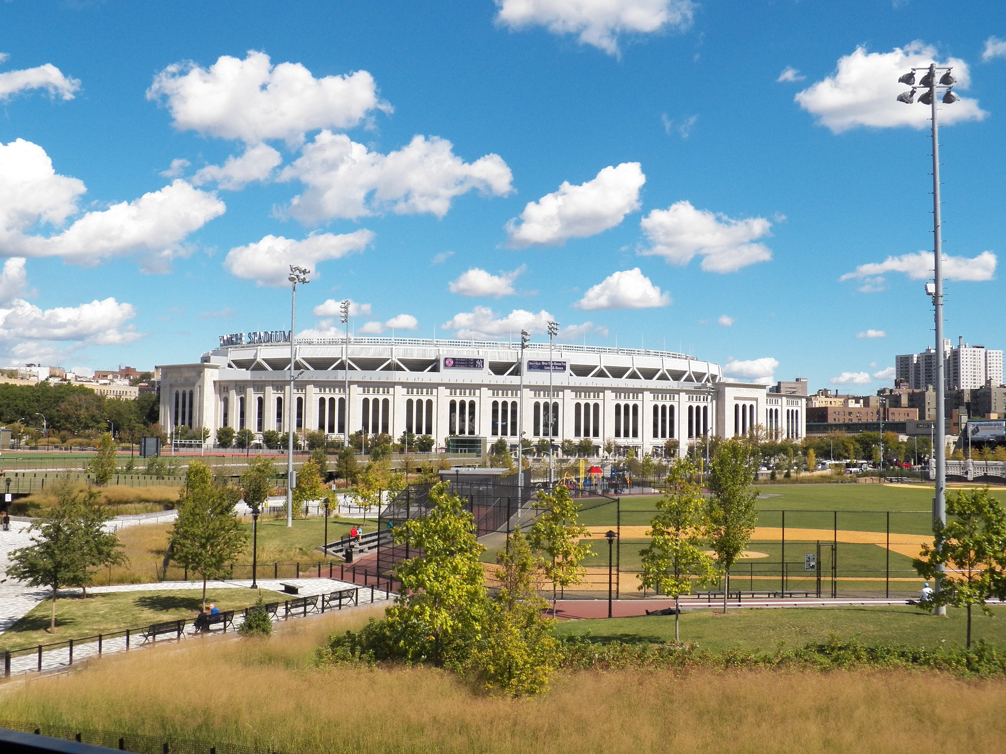 Scene shot from the Yankees-E. 153rd Street Metro North Railroad station overpass.